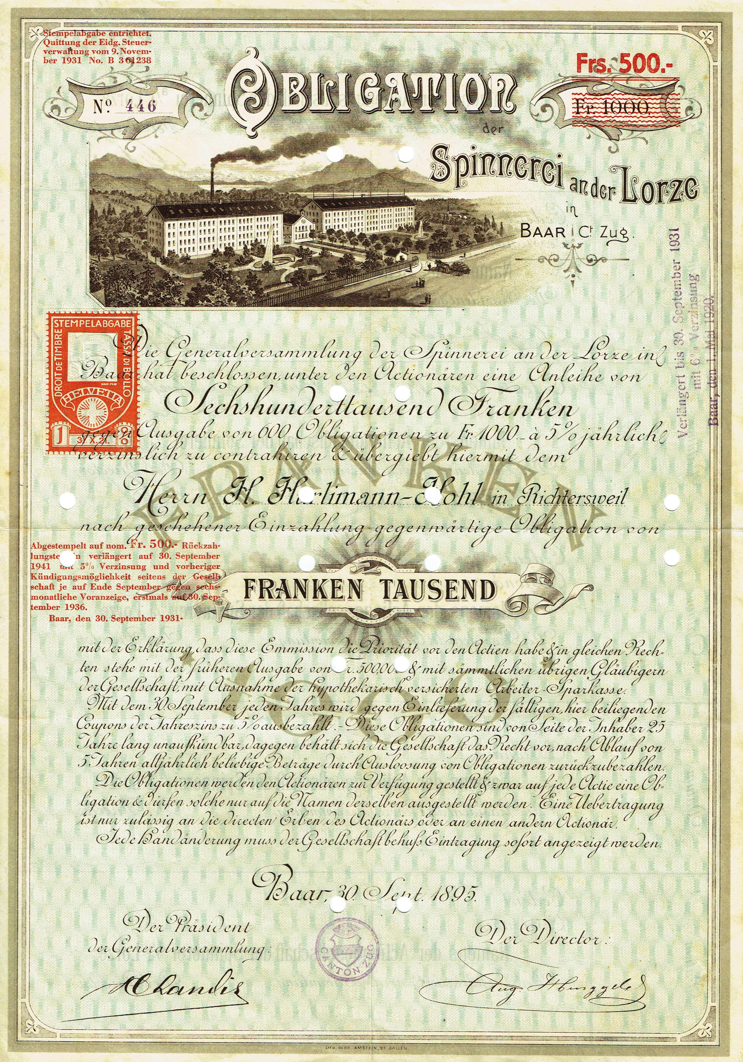 Bond of the Spinnerei an der Lorze from the 30. September 1895